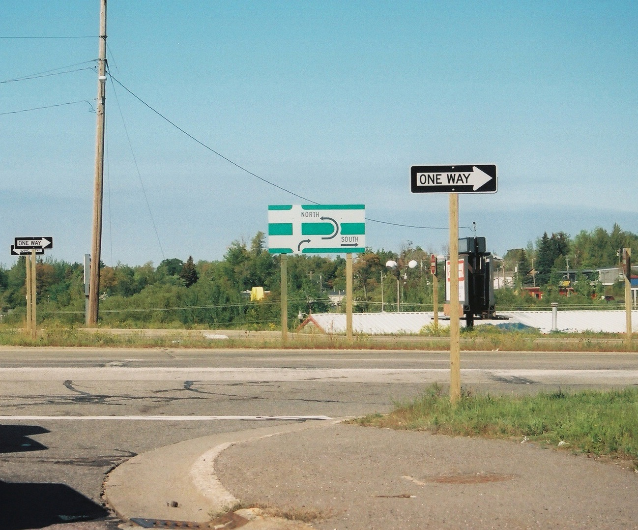 Guide sign in the median of US 41/M-28 at the northern terminus of M-553